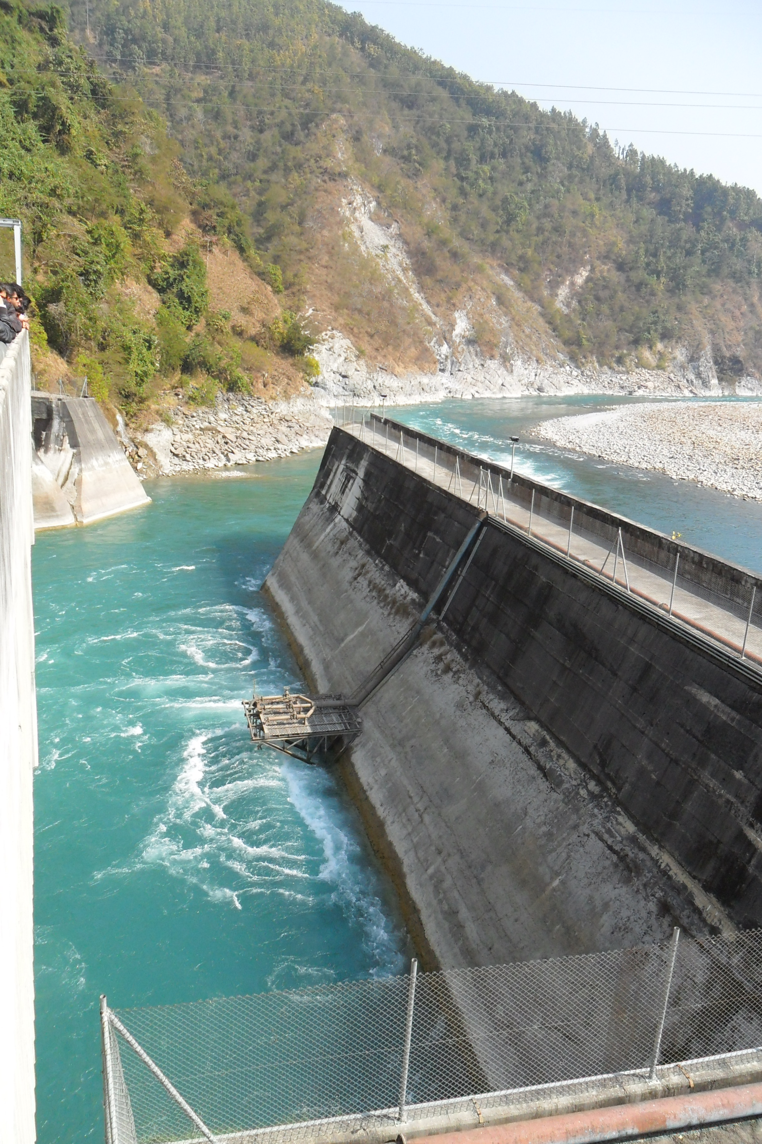 the tailrace of the power station